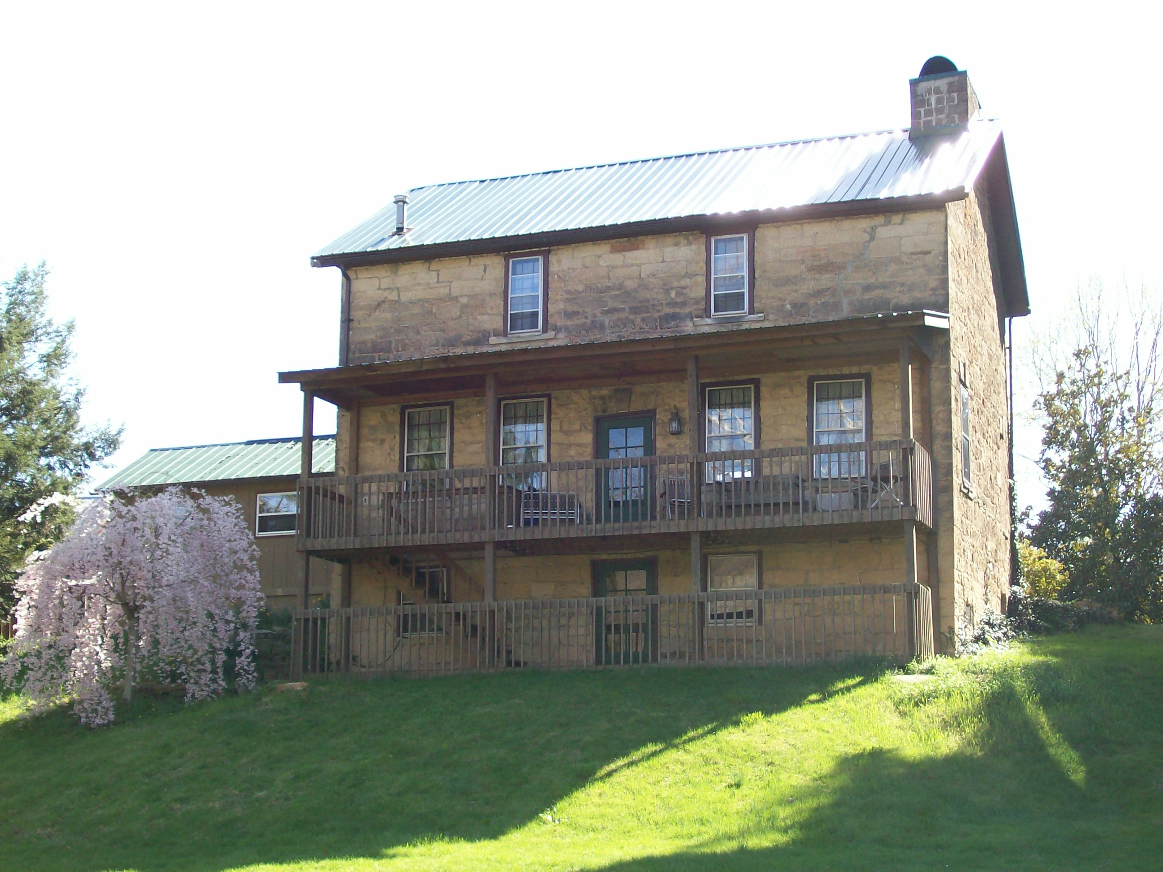 The Jonathan Sprague House just south of Coal Run, Ohio and across the Muskingum River. The house is photographed looking south from Township Road 32. On the NRHP for Washington County, Ohio. Taken 04-10-2010.